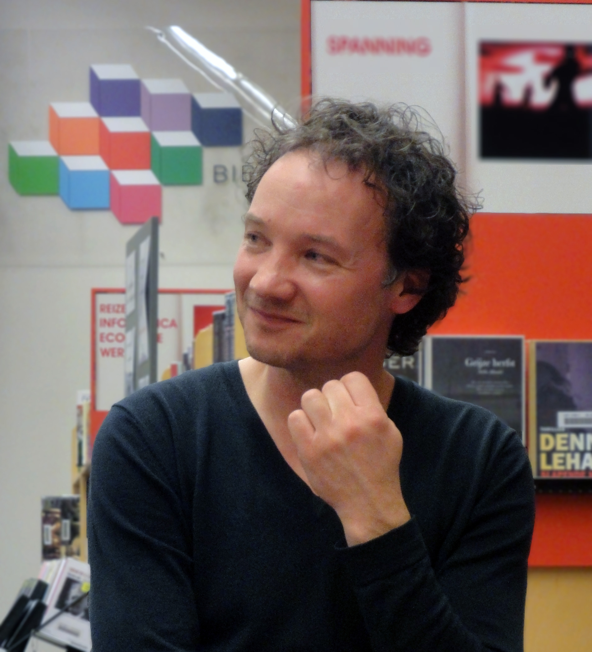 Bas Haring speaking at the library of Wateringen